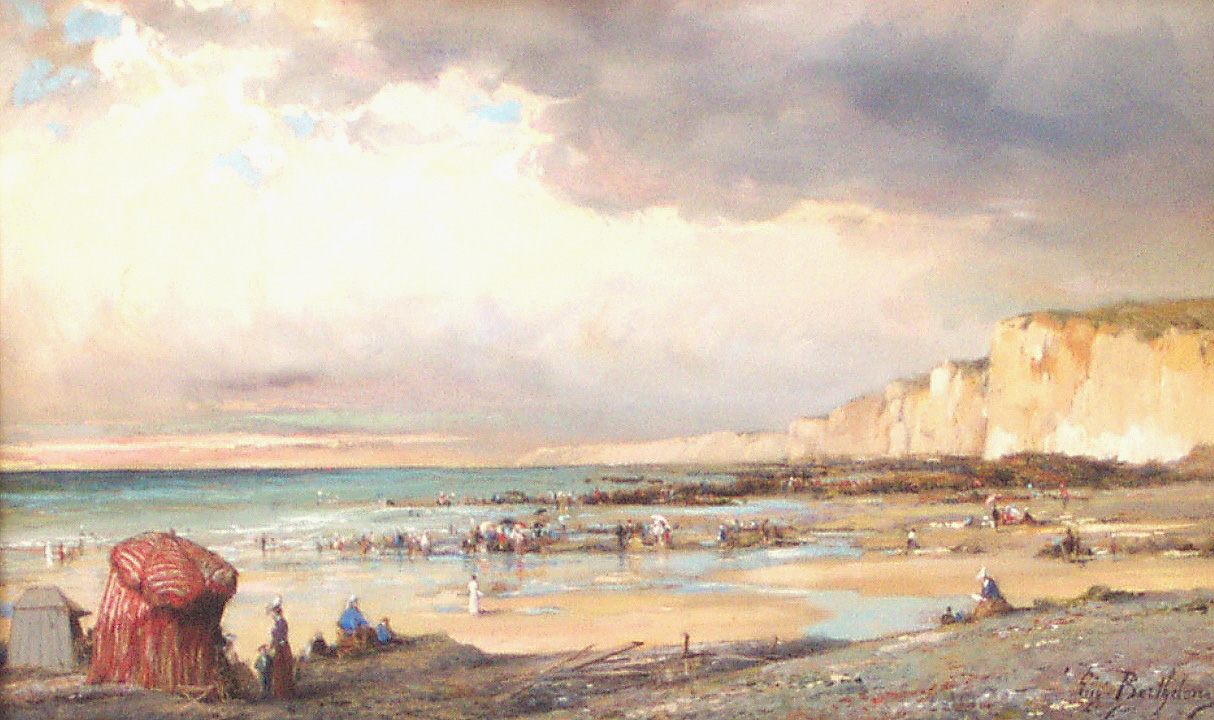 Leisure on a Normandie Beach, by Eugene Berthelon. Gouache on Paper, circa 1880. Signed: Eug. Berthelon.